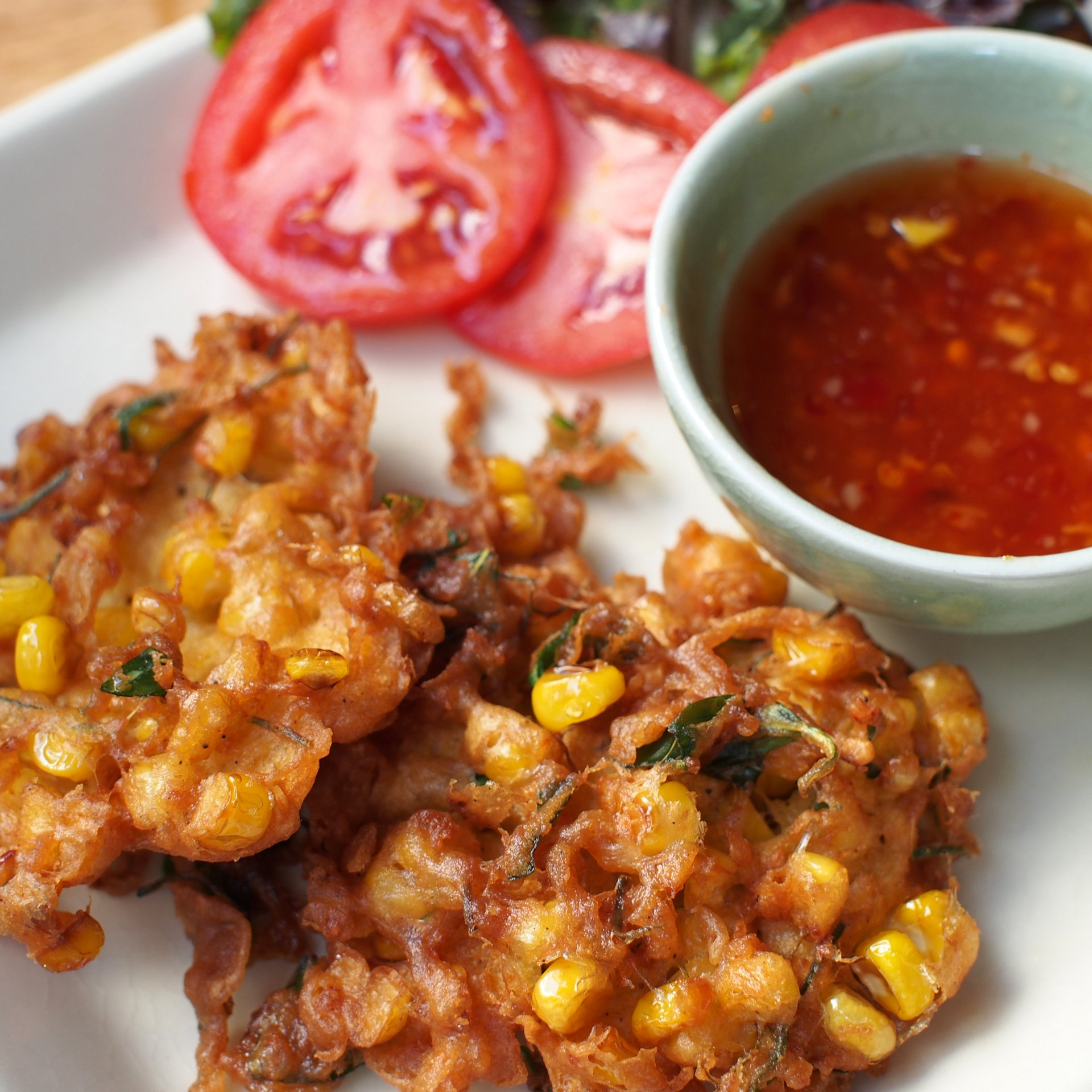 Thot man khaophot (Thai script: ทอดมันข้าวโพด): deep-fried fritters made with corn and herbs, served with a sweet chilli sauce, at a vegetarian restaurant in Chiang Mai.